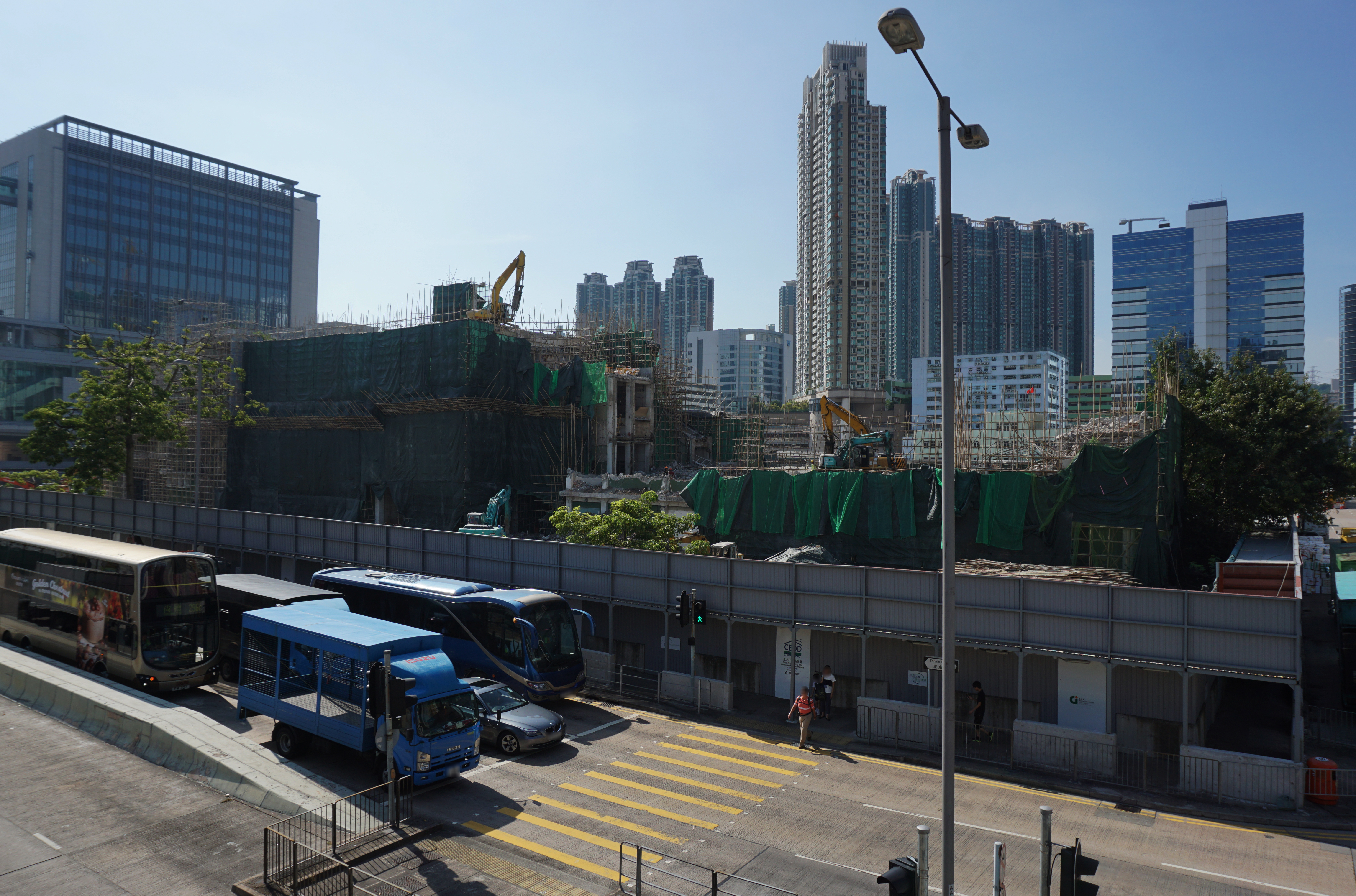 Abattoir in Cheung Sha Wan, Hong Kong.